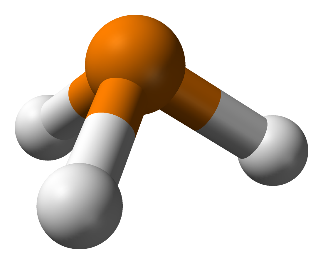 Ball-and-stick model of the phosphine molecule, PH3. Bond lengths and angles from Greenwood & Earnshaw. Image generated in Accelrys DS Visualizer.